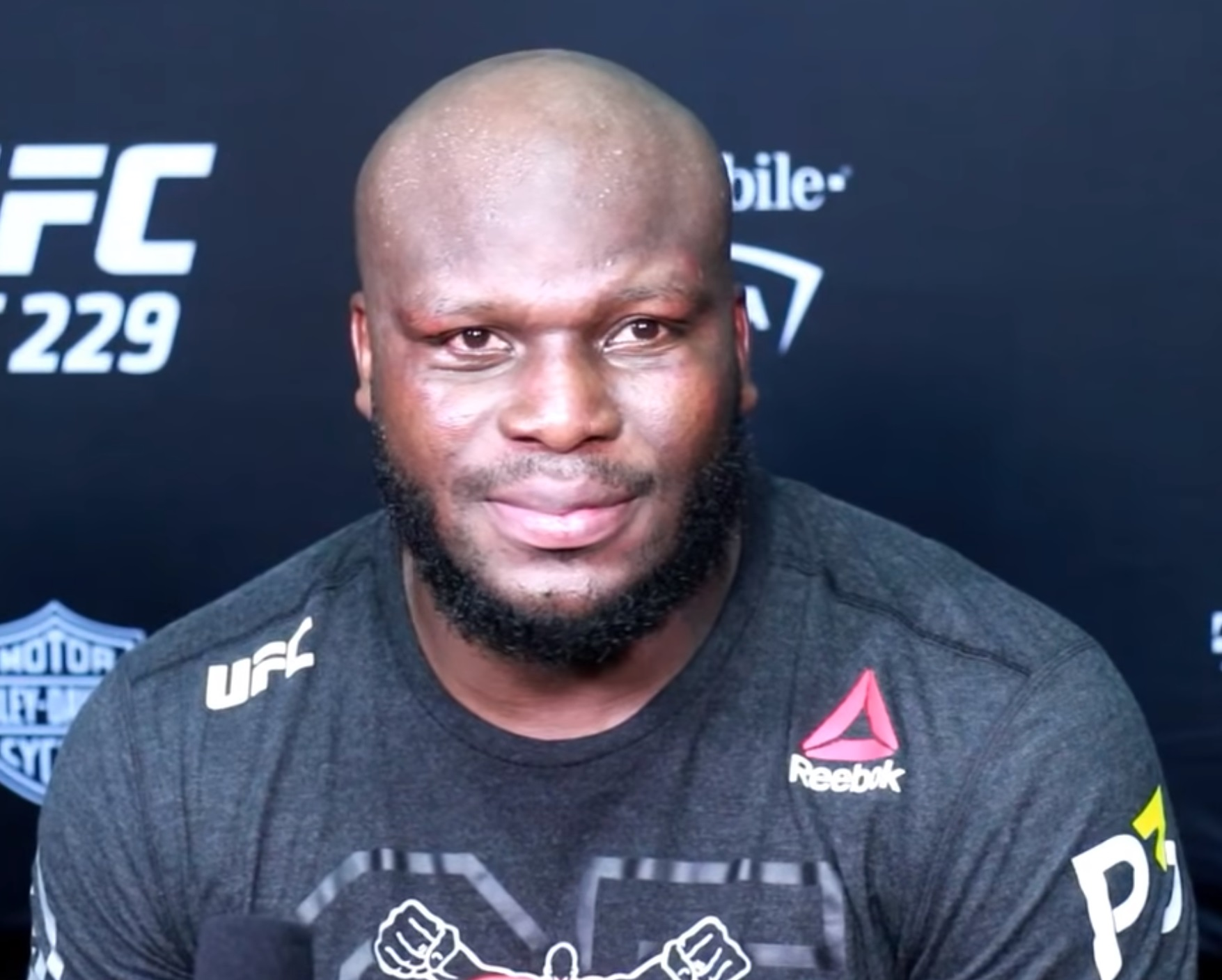 HILARIOUS DERRICK LEWIS POST FIGHT UFC 229 INTERVIEW Mixed martial artist Derrick Lewis interviewed after Ultimate Fighting Championship 239. Visit Europe's biggest MMA website Follow us on our Social Media channels: Facebook: Instagram: Twitter